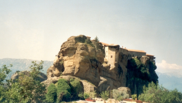 Larger version of Meteora (Varlaam) photo. Taken by User:Jeandunston. You can see more detail in this one - the thumbnailoid on the article page is really a bit too' small. - Another try as the 400 pixel wide one was still no good. Cropped it better and sized to 640 wide, so the effective size of the monastery should be much greater. Nevilley 20:16 Feb 10, 2003 (UTC)